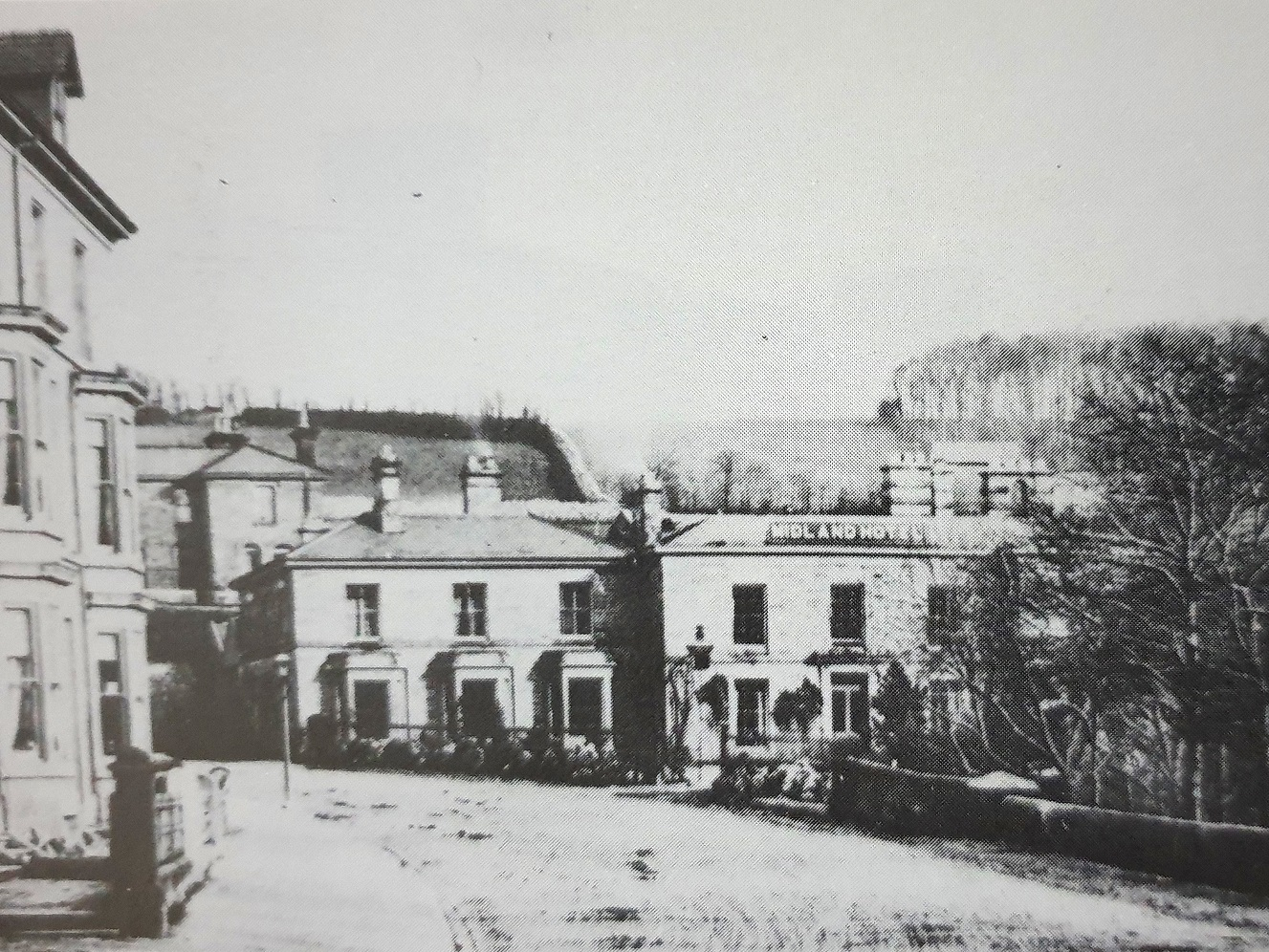 Midland Hotel at Wye House, Buxton